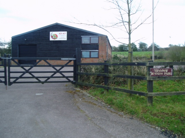 Tramway Business Park, Brill, Buckinghamshire